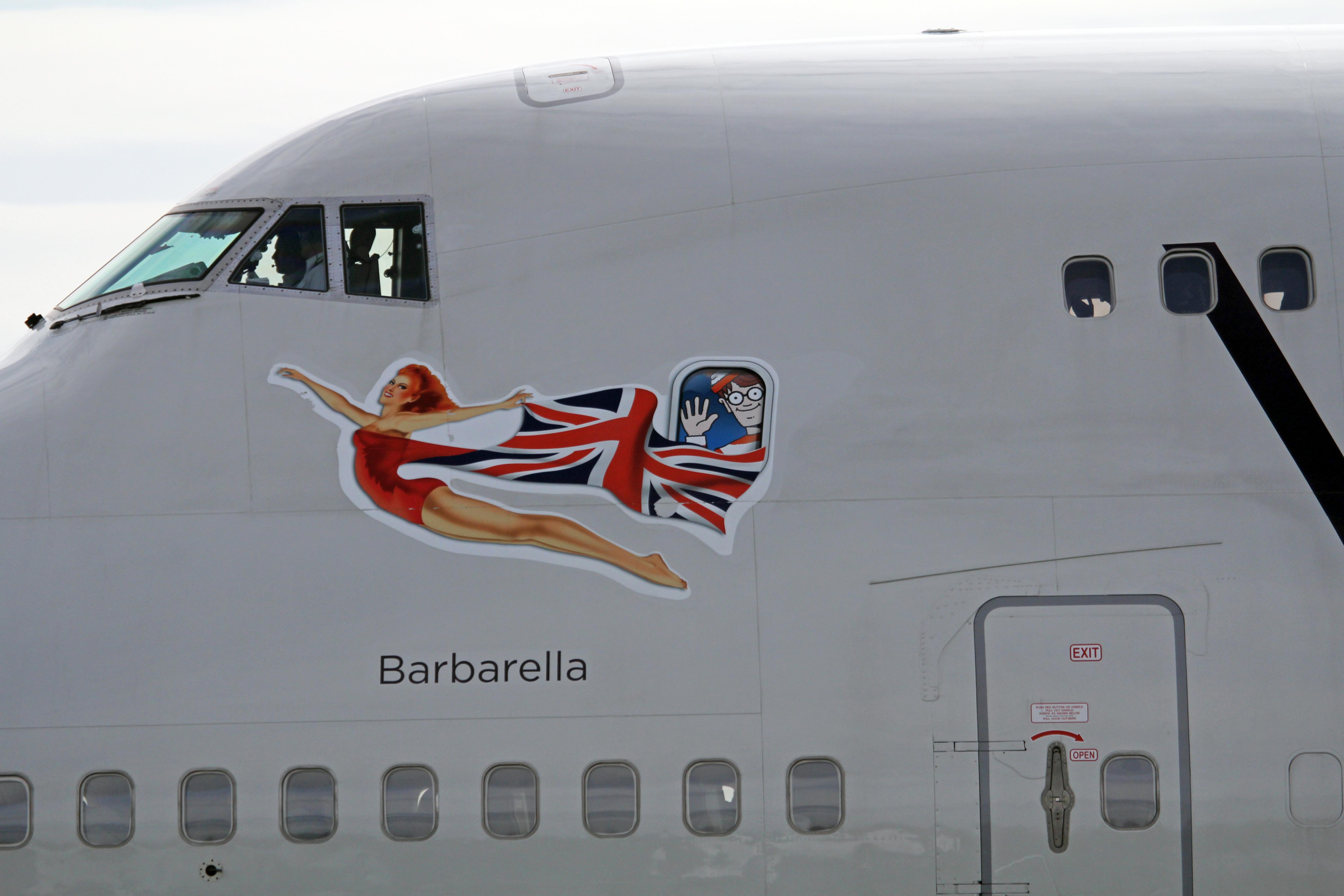 With the additional 'Wheres Wally' graphic, left side only.